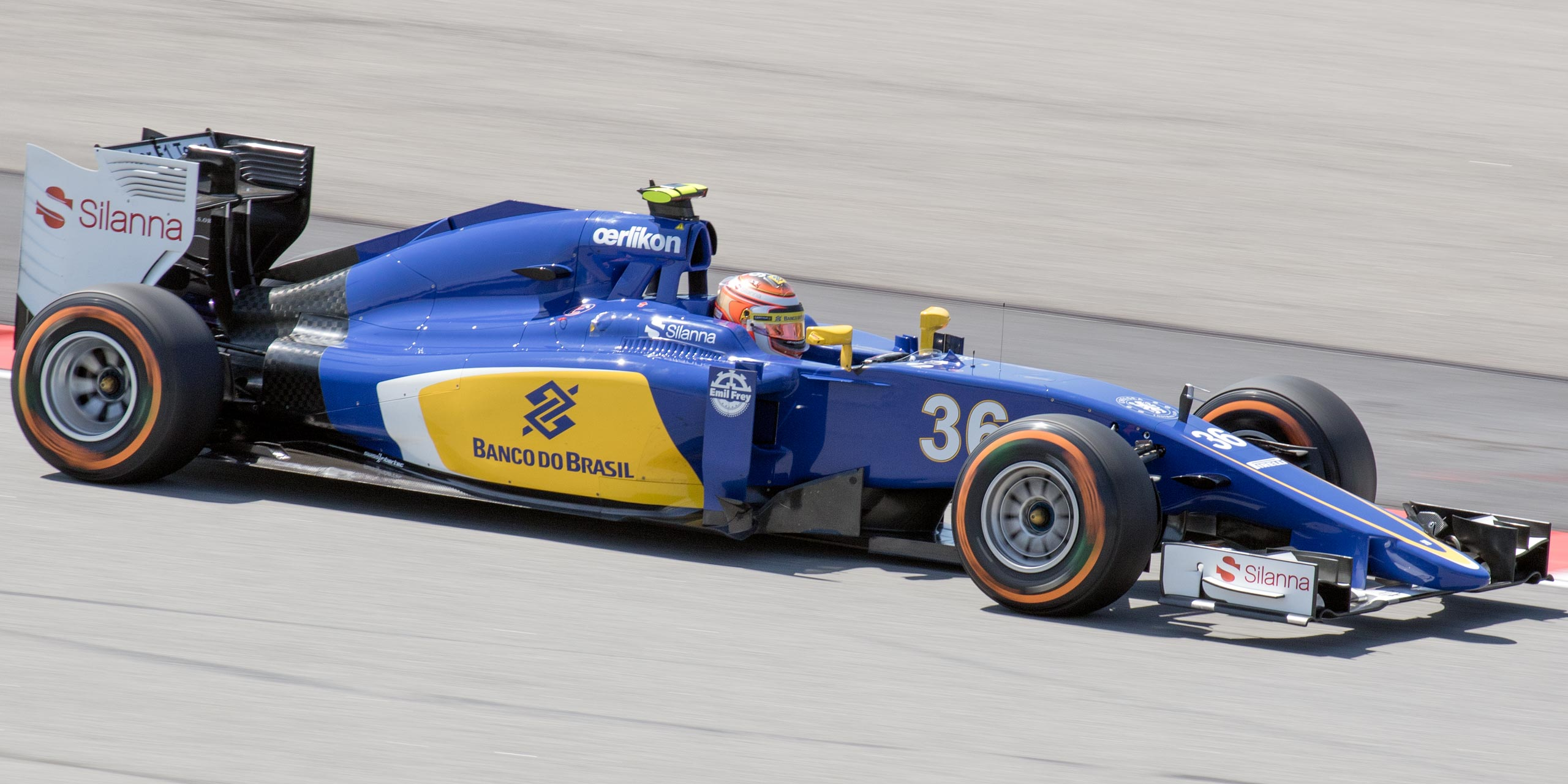 Formula One 2015 Rd.2 Malaysian GP: Raffaele Marciello (Sauber)